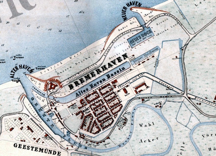 Map of the city of Bremerhaven, Germany from the year 1849.